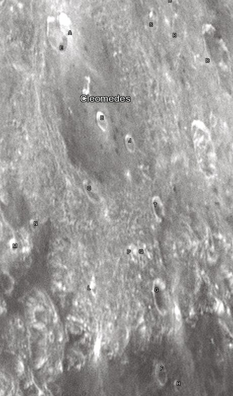 Cleomedes lunar crater as seen from Earth with satellite craters labeled